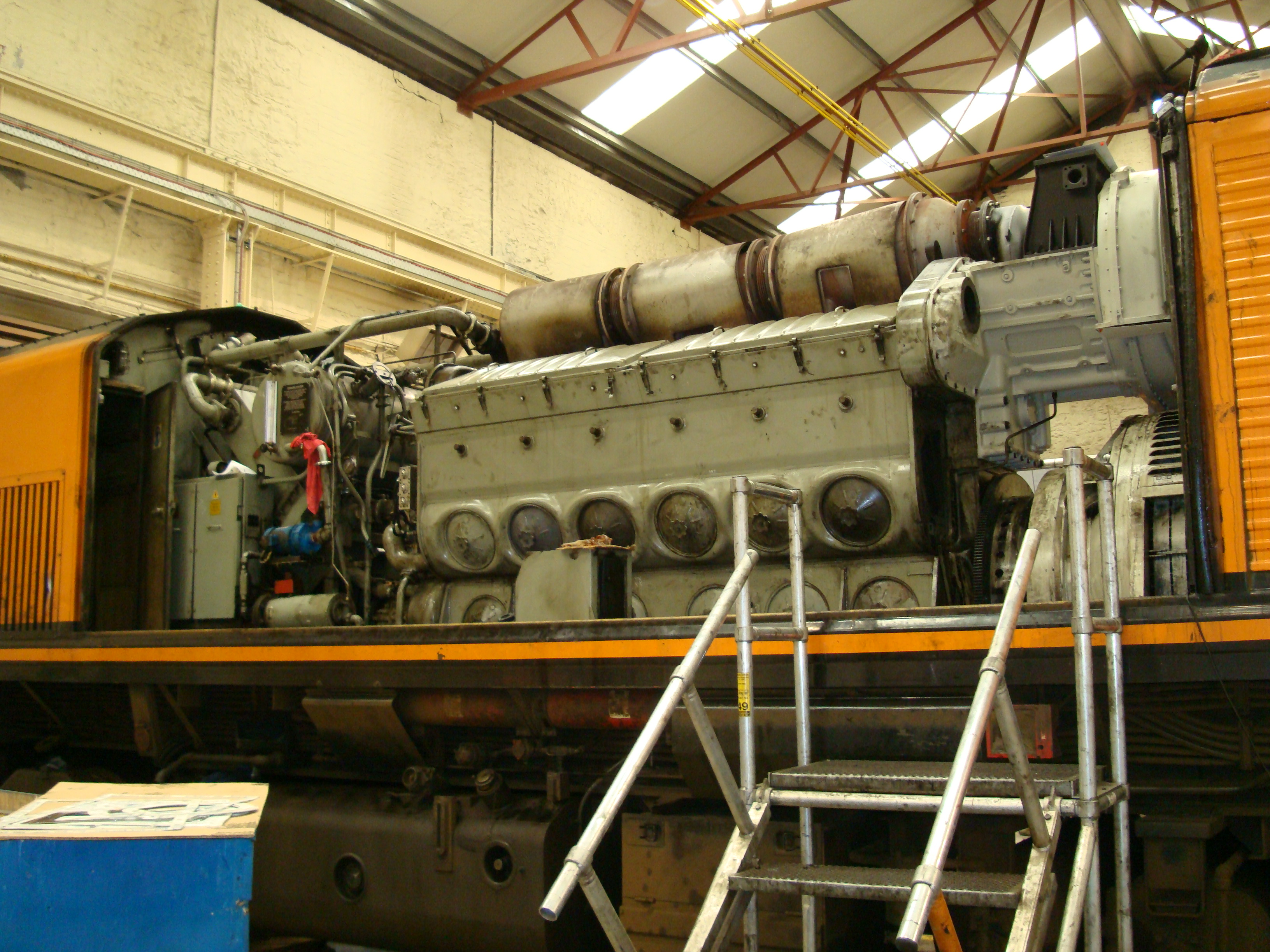 EMD 12 cylinder 710G3B engine as installed in Irish Rail 201 class locomotive, number 214.